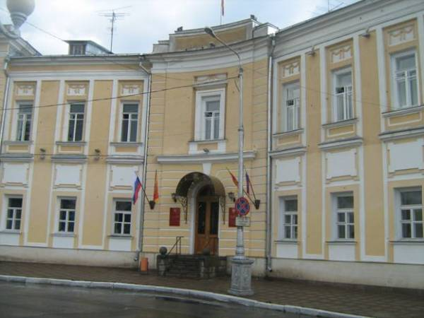 Tver Town Hall, built in 1783.